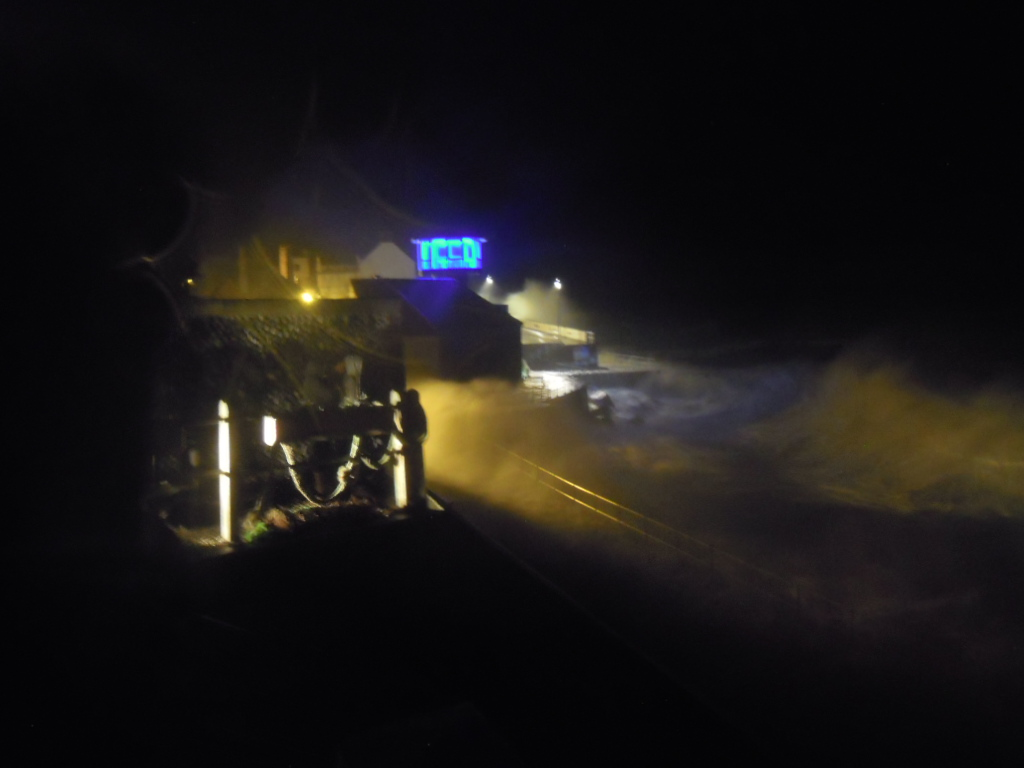 The North Sea Storm surge on Sheringham Seafront, Norfolk, England. The evening of 5 December 2013